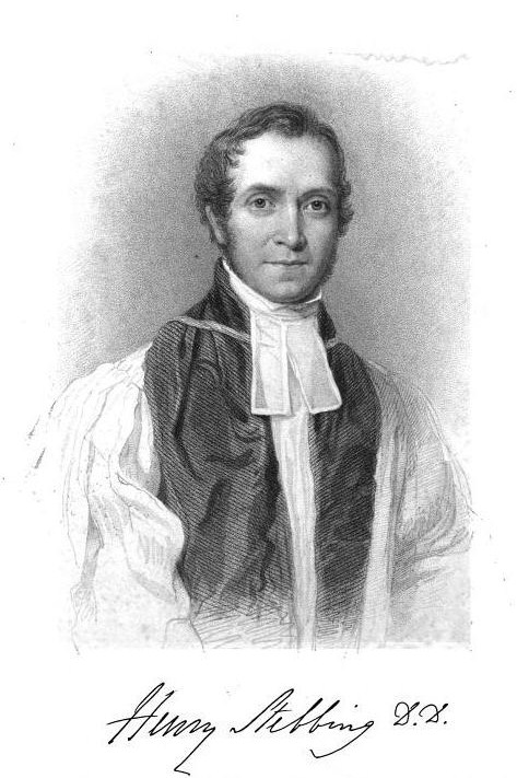 Portrait of Henry Stebbing (1799–1883), English cleric and man of letters.